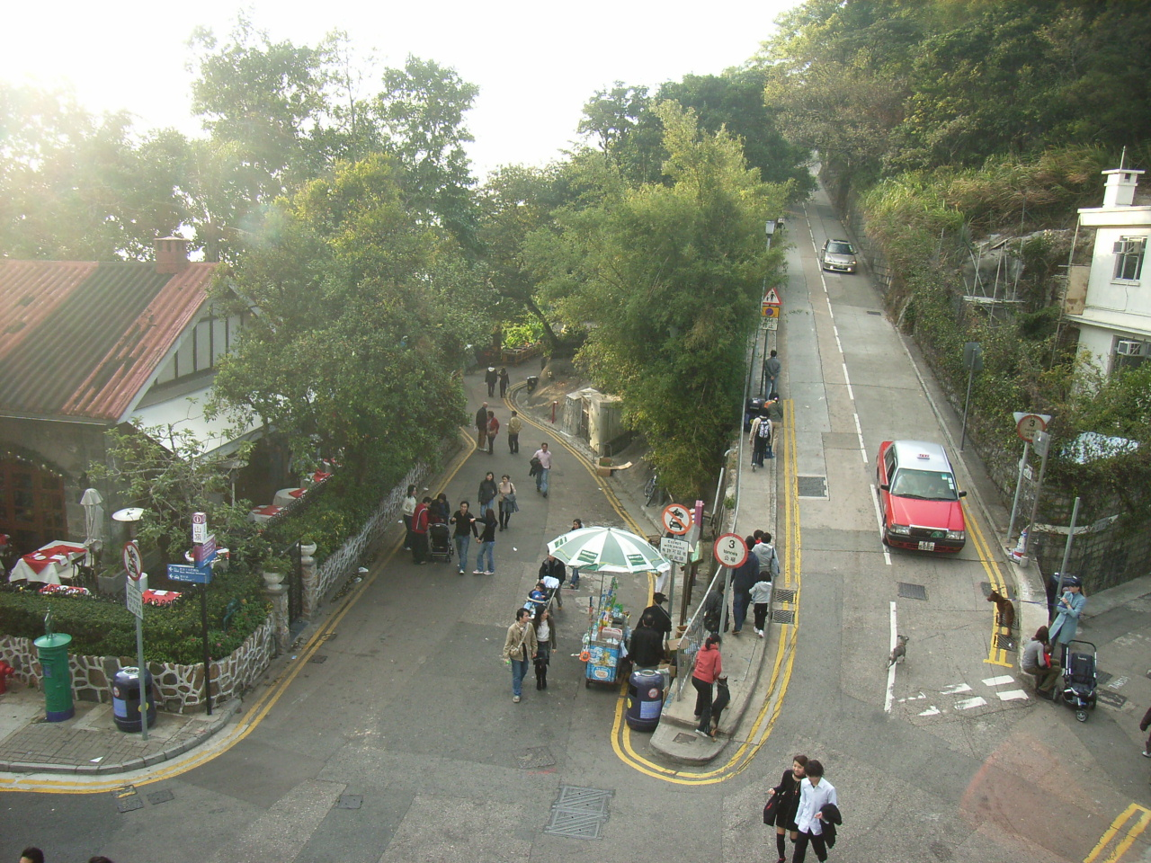 Road junction next to the Peak Tower, at Victoria Gap, on Victoria Peak, Hong Kong. From left to right: Peak Road corner of The Peak Lookout restaurant Harlech Road (with street vendor) Mount Austin Road (with taxi) part of the facade of No. 1 Lugard Road Lugard Road. Photographer and author is ParkerStarS.